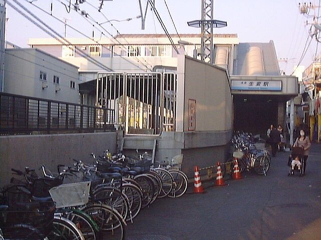 Keikyu Gumyoji station from the adjusent public road